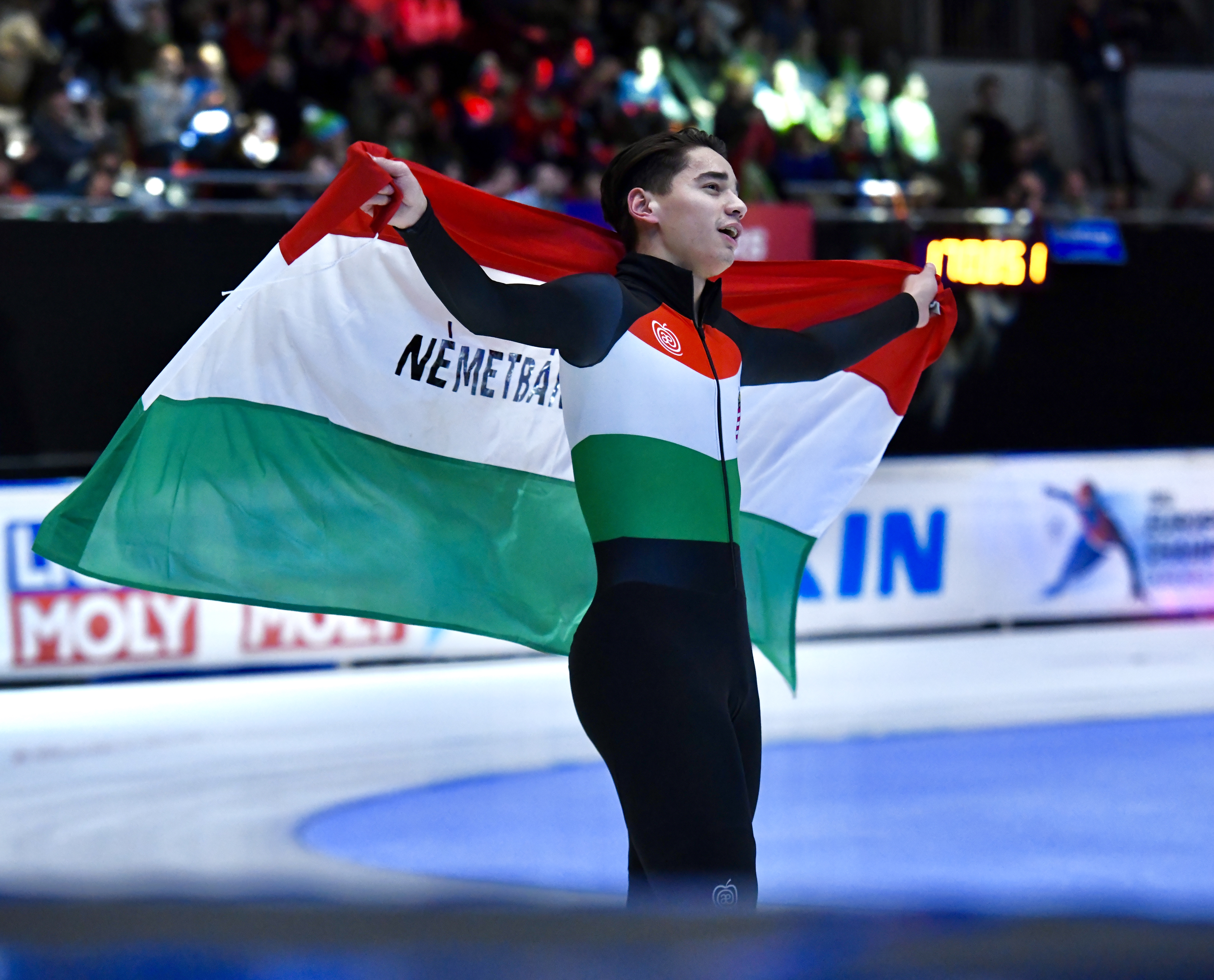 Shaolin Sándor Liu, 2019 Short track European champion